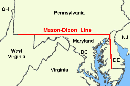 Extent of the original Mason–Dixon line. Mason and Dixon were prevented from finishing the western portion of the line due to a potential conflict with American Indians. The line was later extended (by others) to the Ohio River and not only established the Pennsylvania-Maryland/Virginia border, but also the border between Marshall and Wetzel Counties (now in West Virginia).